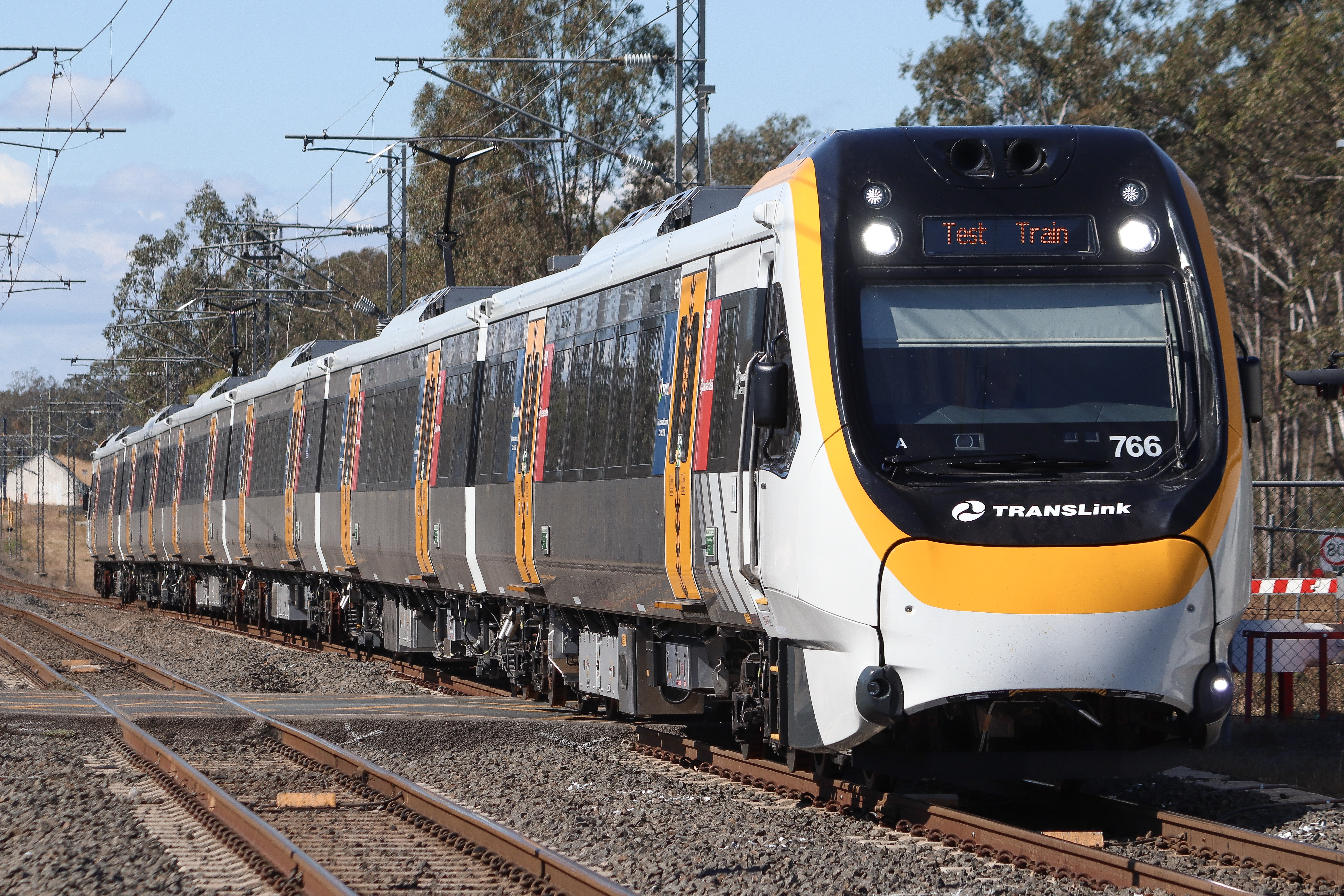 NGR766 at Karrabin